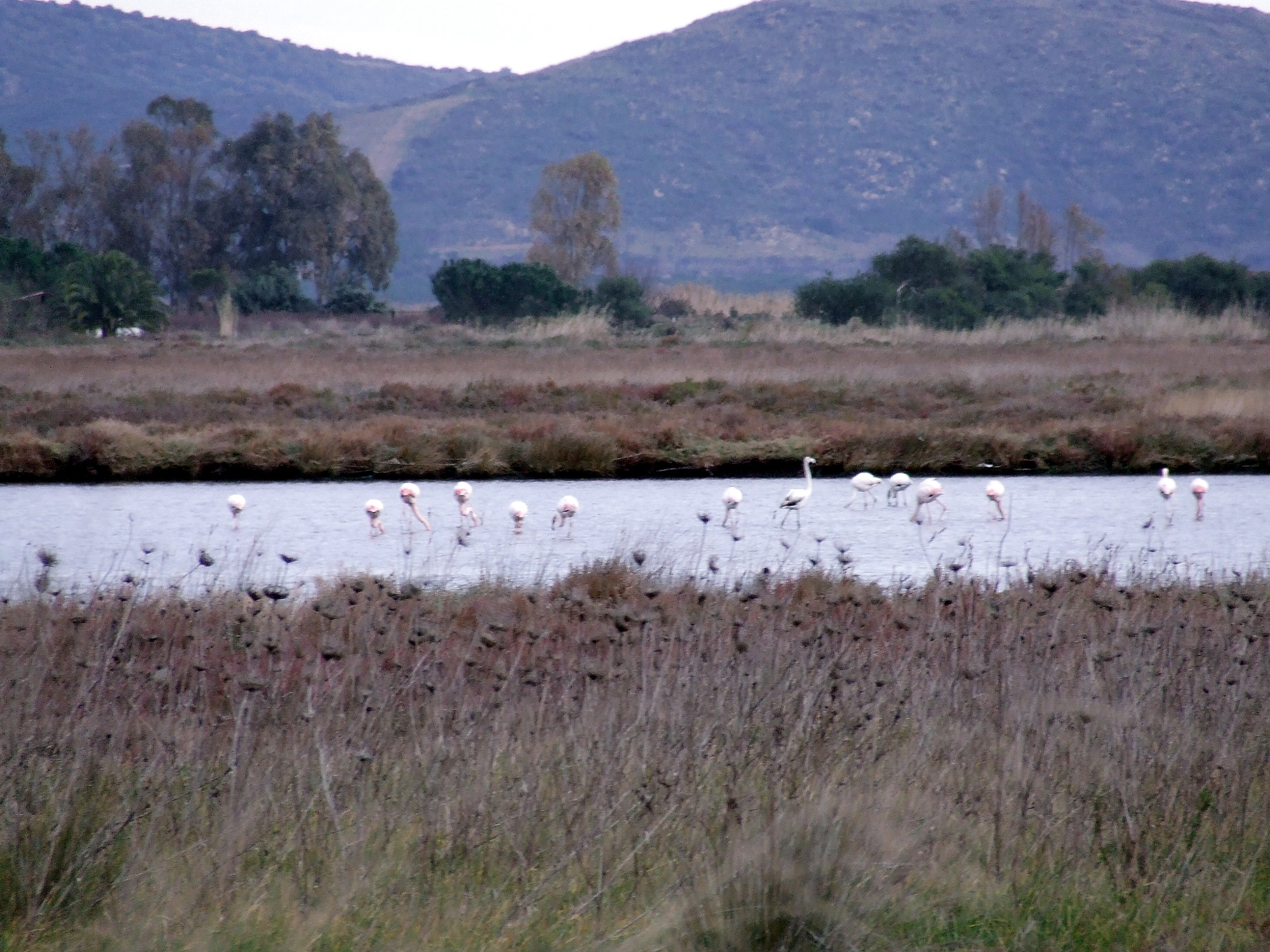 Flamingos in San Giovanni, Posada, Sardinia